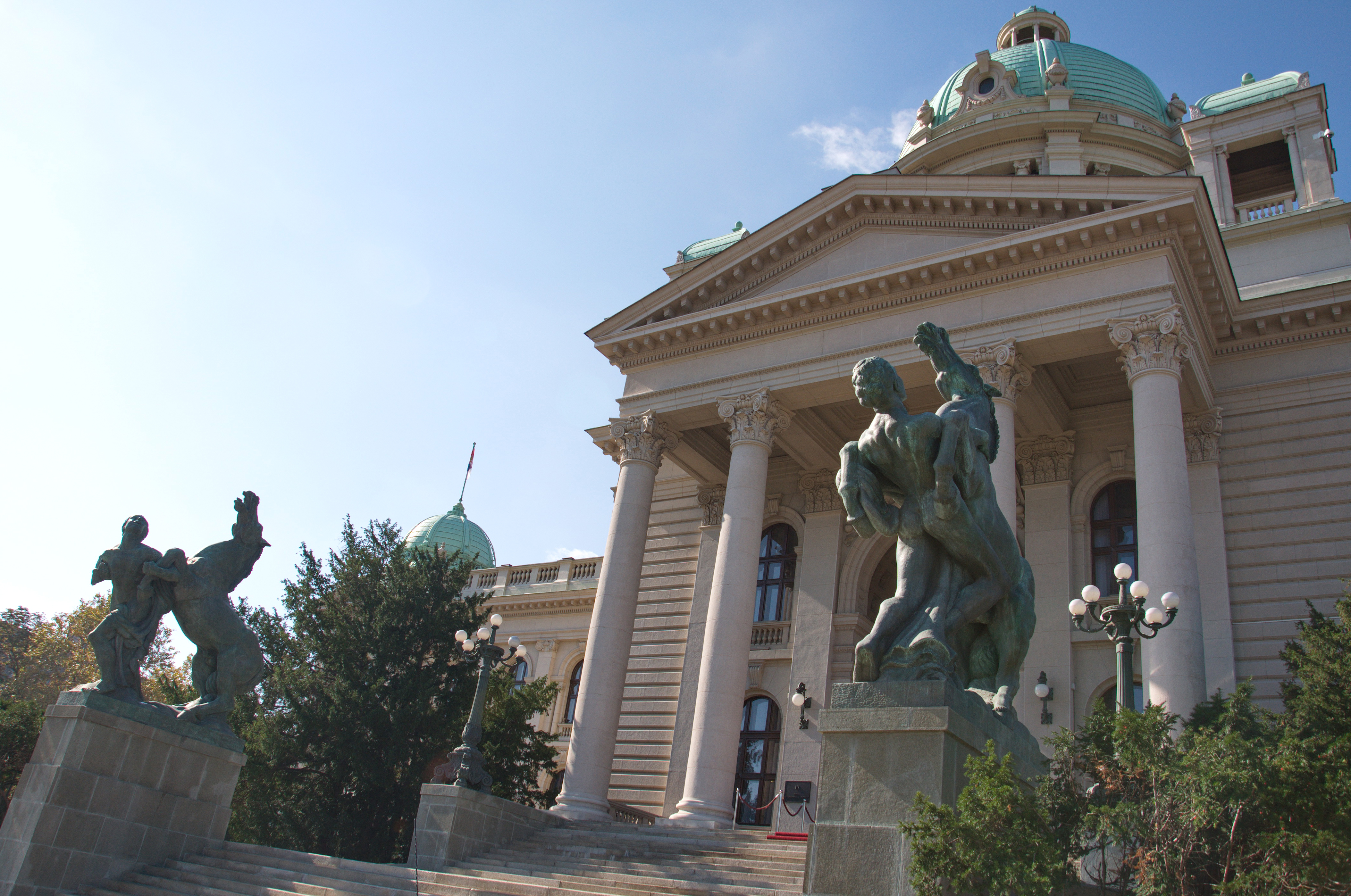 Dom Narodne skupštine je reprezentativna, samostojeća palata, strktno projektovano u maniru akademizma. Na stranama prilaznog stepeništa postavljen je par skulptura "Igrali se konji vrani, vajara Tome Rosandića.